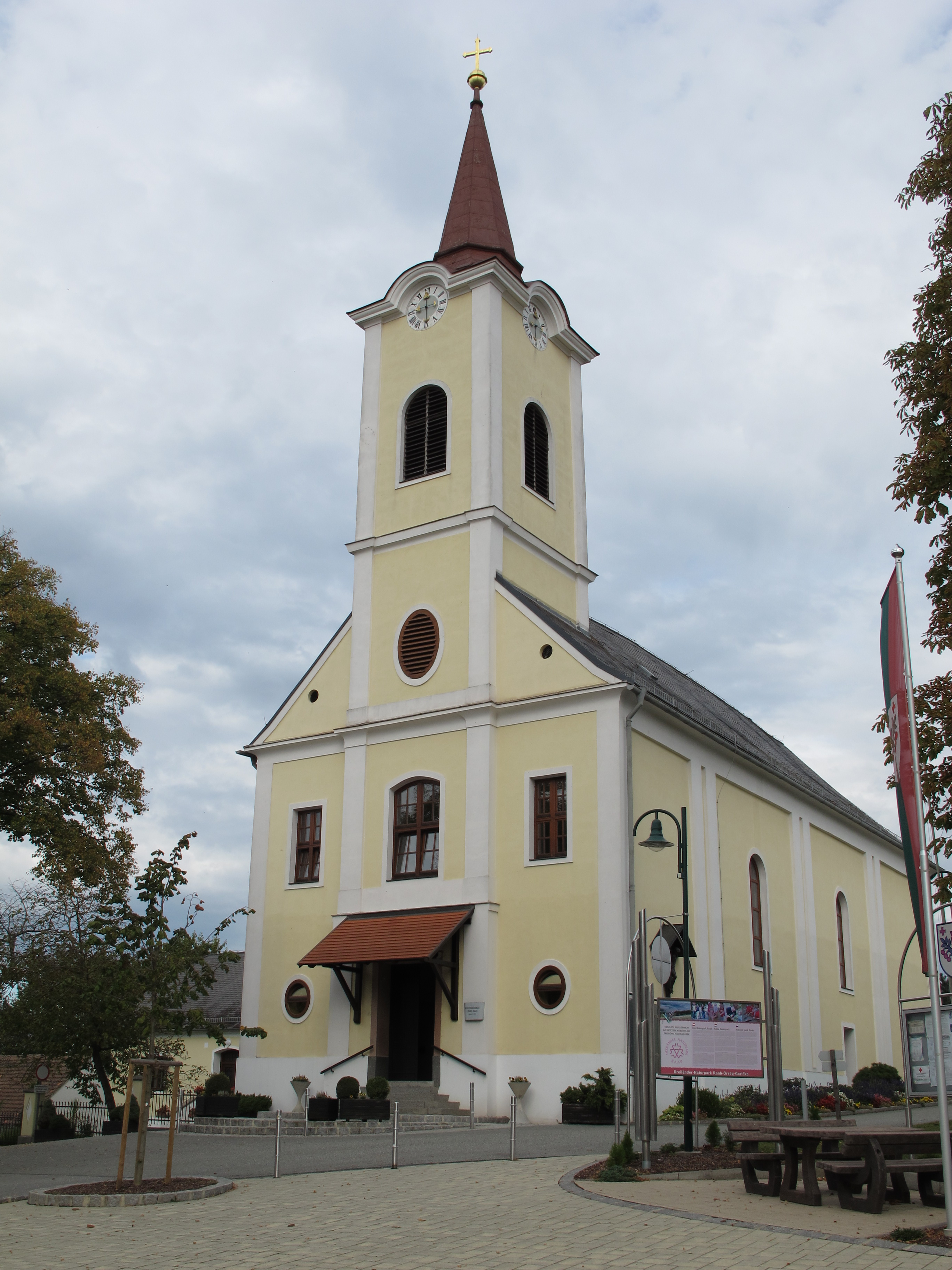 Wallfahrtskirche Maria Bild